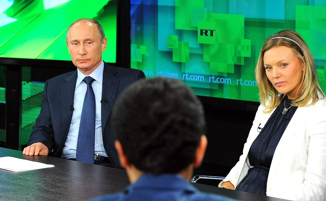 Vladimir Putin visited the new Russia Today broadcasting centre and met with the channel's leadership and correspondents